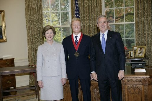 President George W. Bush and Laura Bush stand with 2005 National Humanities Medal recipient Leslie Keno, art historian and appraiser, Thursday, Nov. 10, 2005 in the Oval Office at the White House.